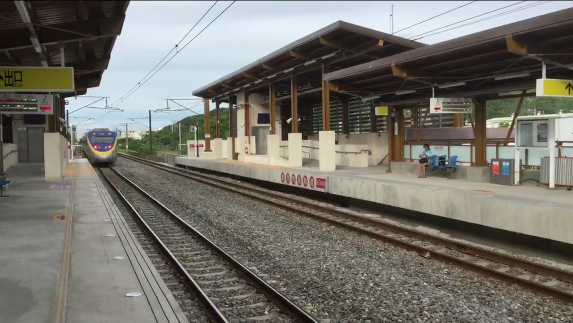 TRA Sanxingqiao Station platform